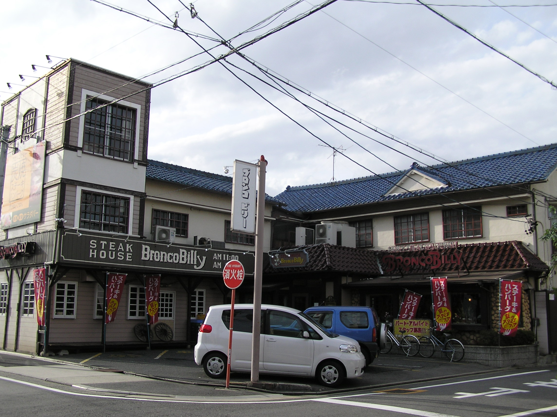 Steakhouse Broncobilly Ozone